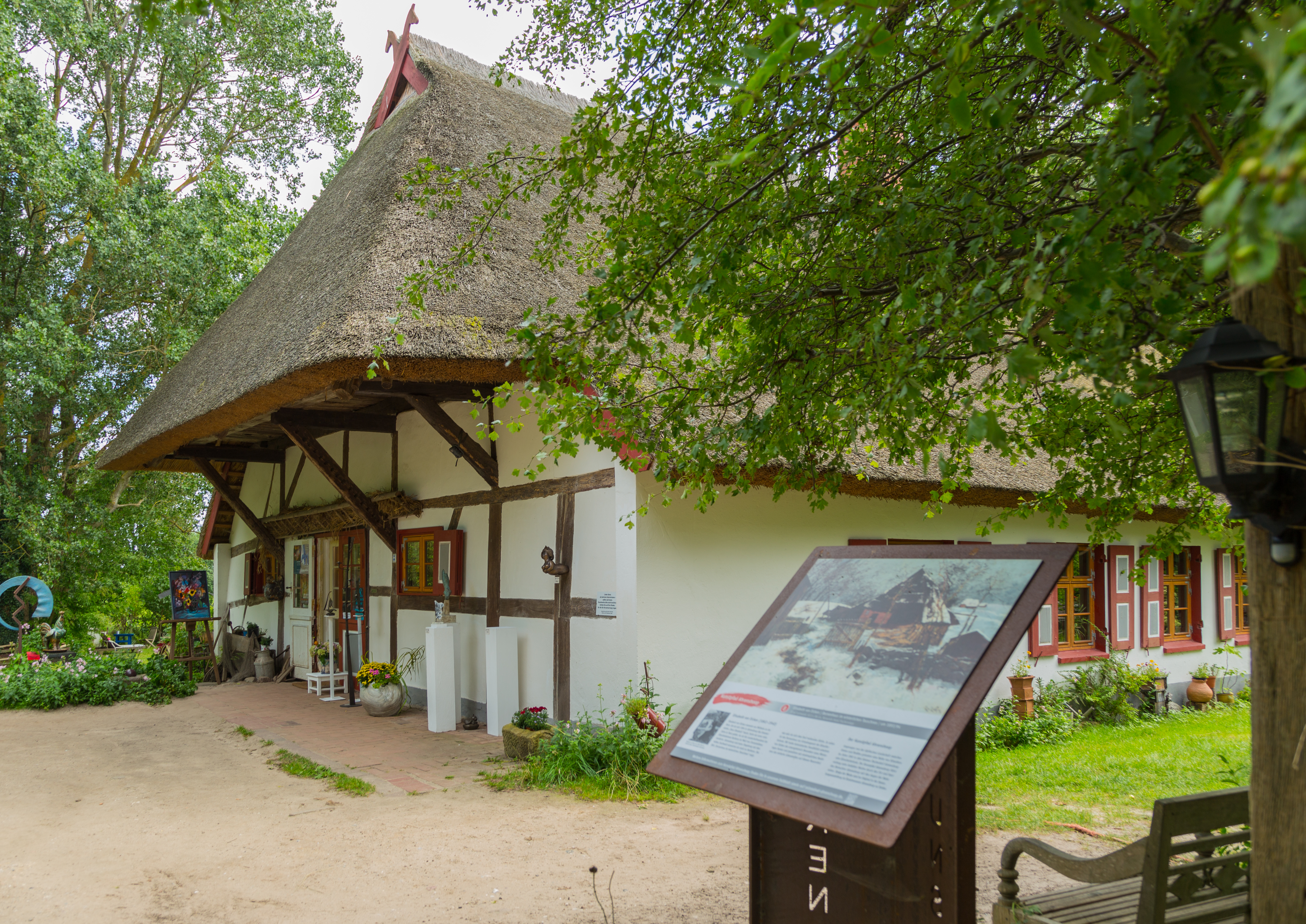 Thorn House (Dornenhaus), 1 Bernhard Seitz Lane (Bernhard-Seitz-Weg 1) in Ahrenshoop-Althagen, Landkreis Vorpommern-Rügen, Mecklenburg-Vorpommern, Germany.